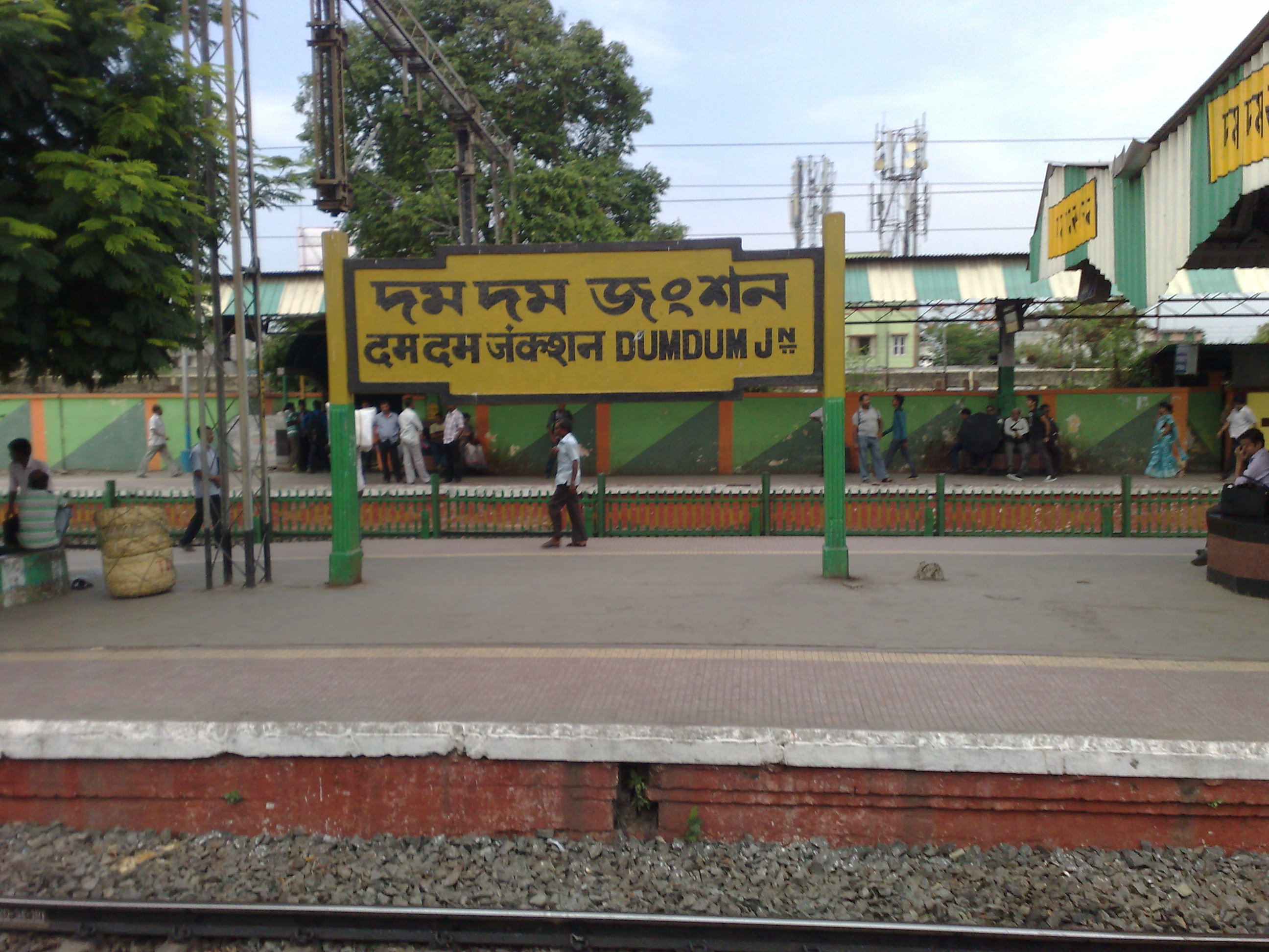 Dumdum Junction